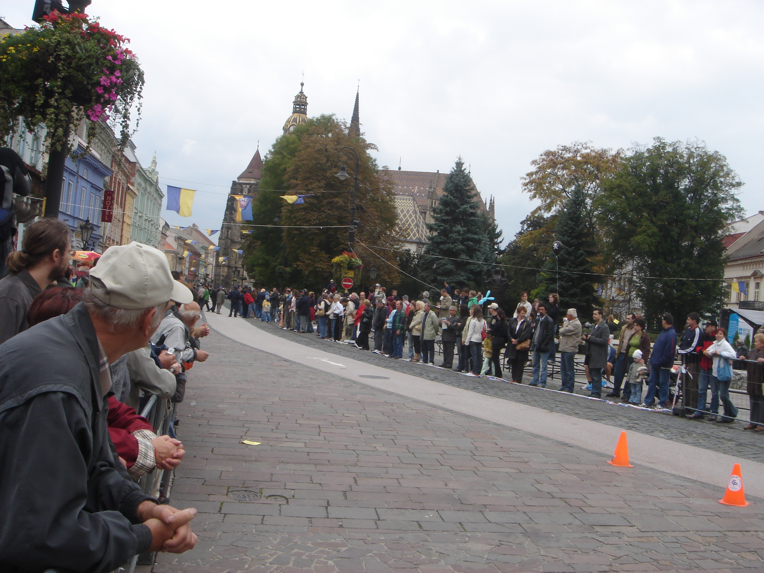 84th International Peace Marathon in Kosice, Slovakia